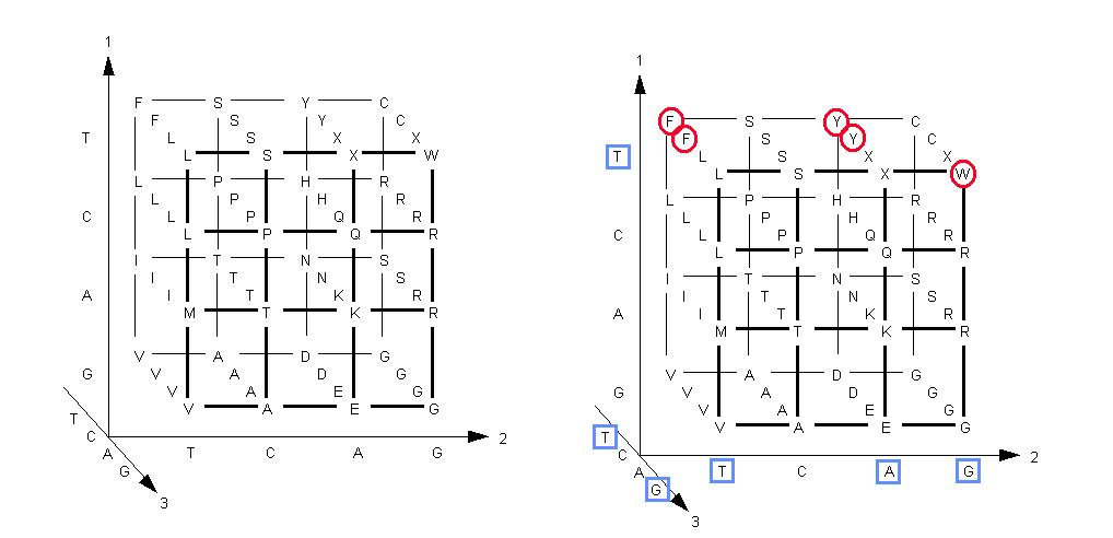 Encoding of the hydopathy and molar volume of amino acid residues in patterns within the biological genetic code, pre-translation